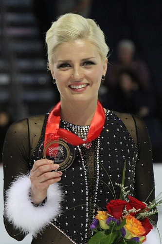 Viktoria HELGESSON at the 2011 Skate America